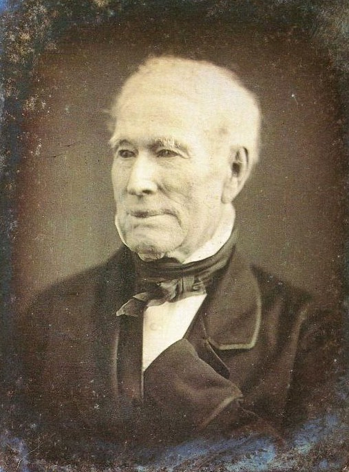 Daguerreotype of Admiral Guillermo Brown.